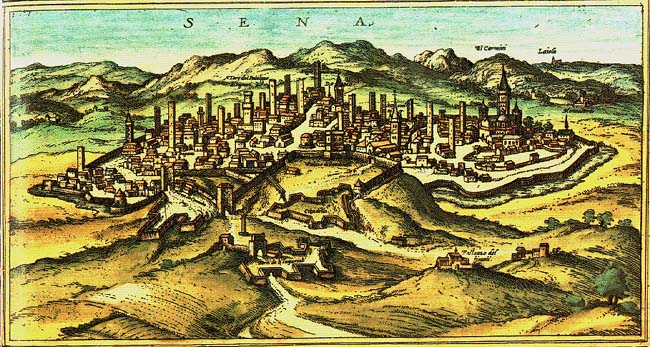 Old map of Siena